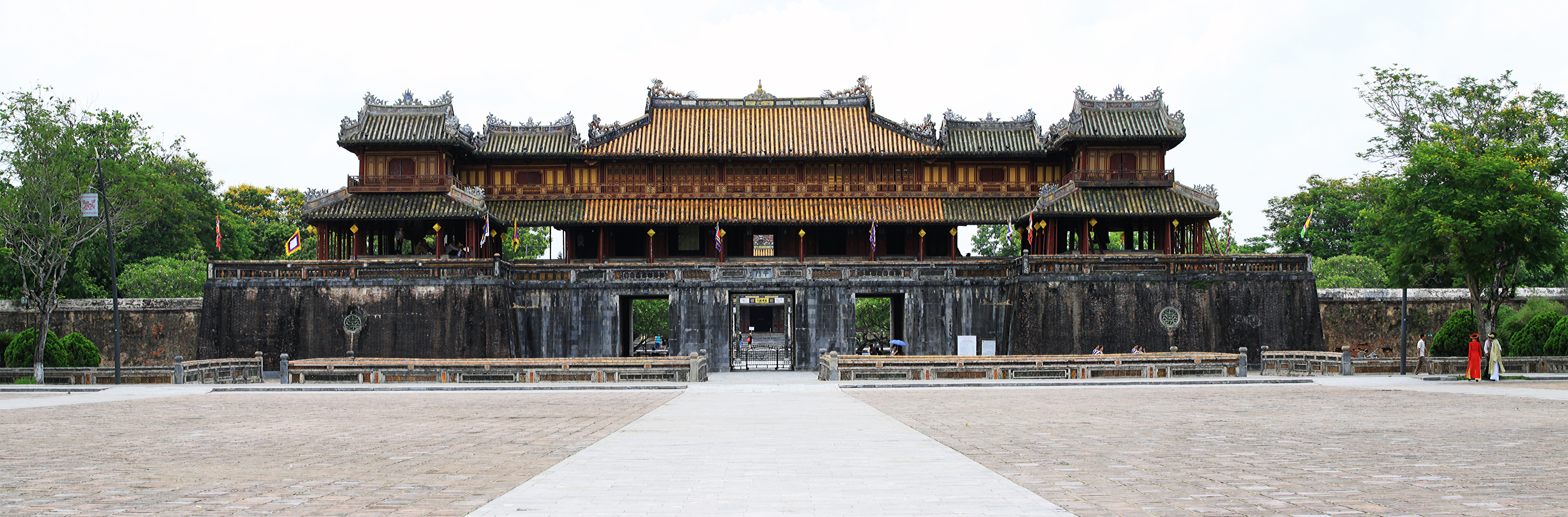 Noon gate at Hue citadel Ngọ Môn Huế và Quảng Trường